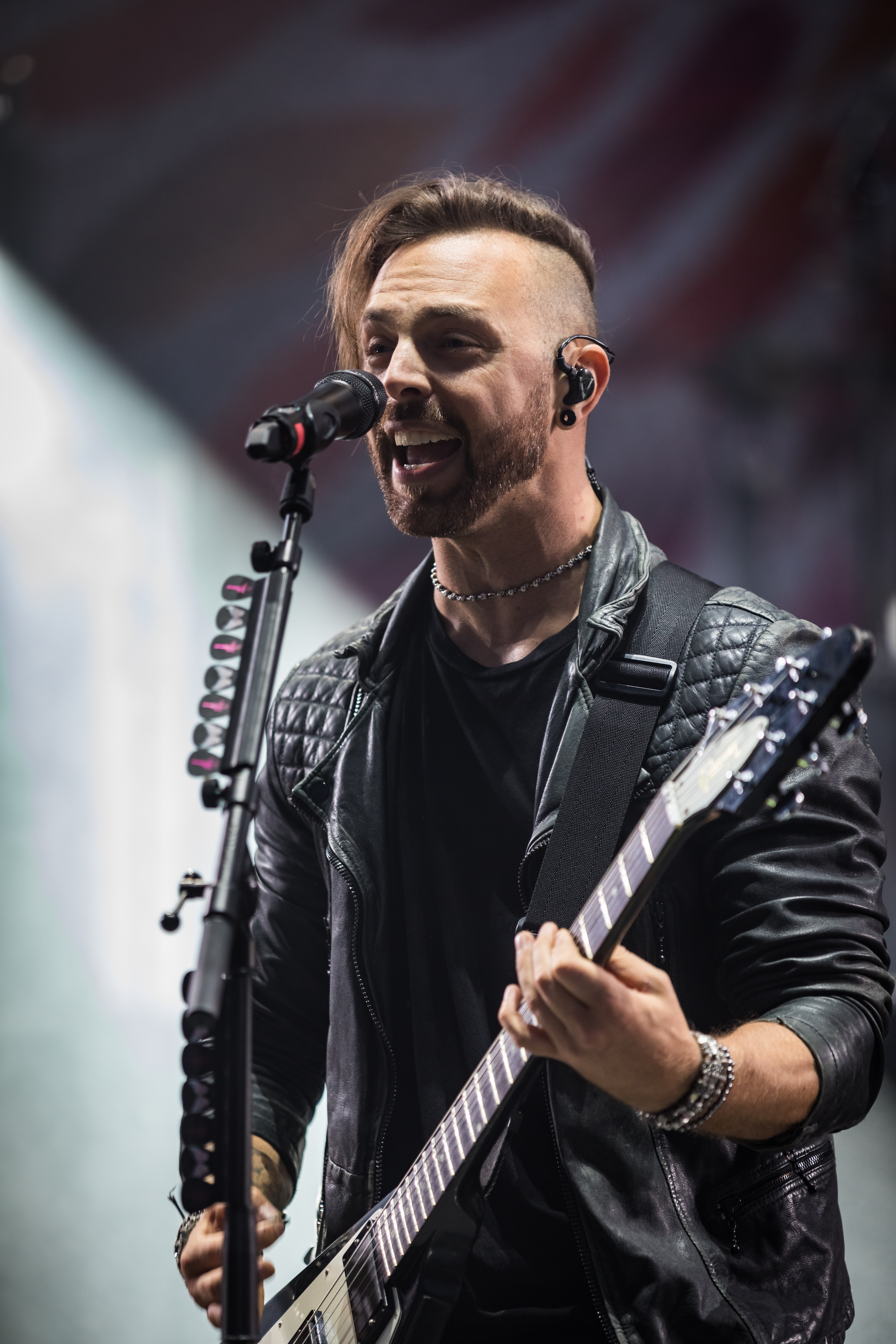 Bullet for My Valentine - Rock am Ring 2018